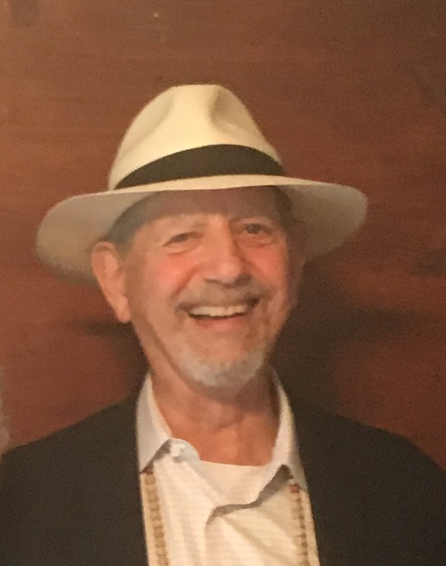 Peter Coyote in Boxboro Massachusetts, June 26, 2017